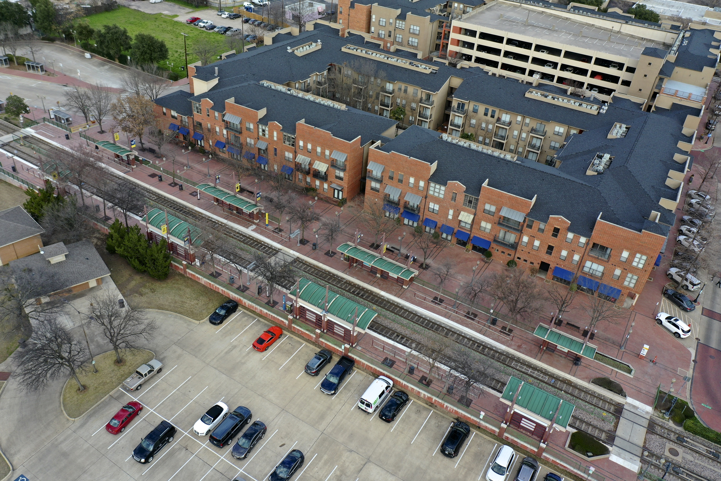 Downtown Plano station in Plano, Texas, on the DART Light Rail Red Line in February 2020.